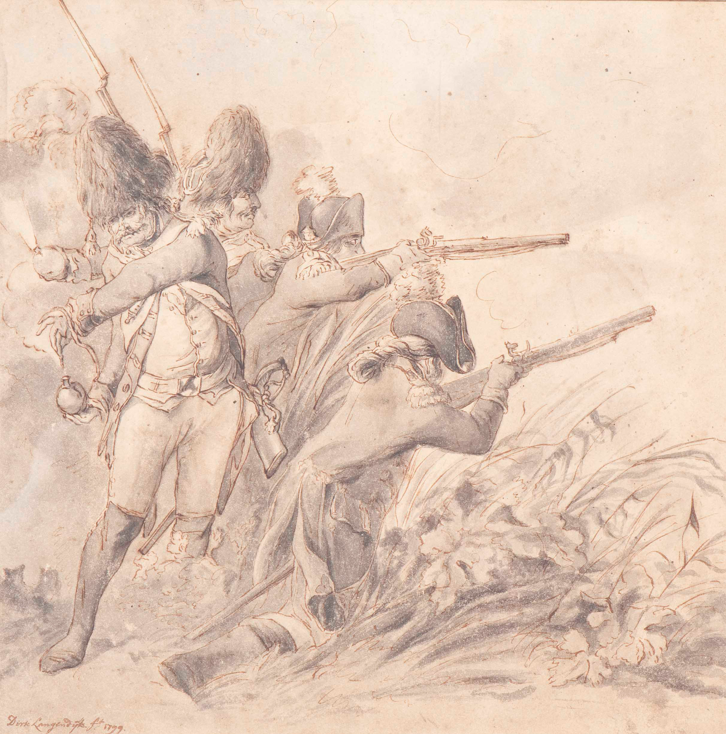 Russian (or English) forces near Bergen brown pen, grey wash 28.6 x 28.8 cm signed b.l.: Dirk Langendijk fct 1799